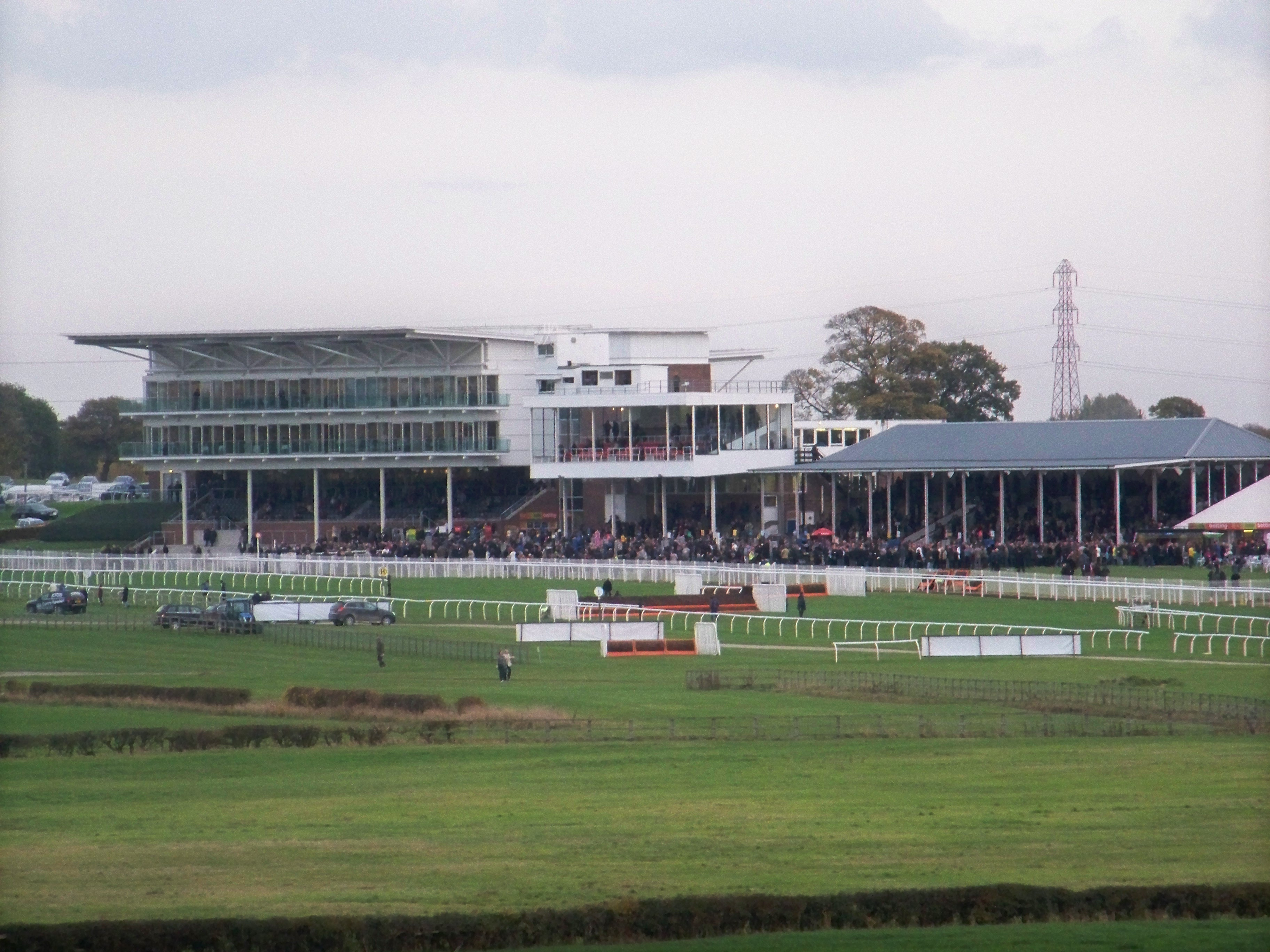 Wetherby racecourse during the Charlie Hall Chase. Taken on the afternoon of Saturday the 30th of October 2010.